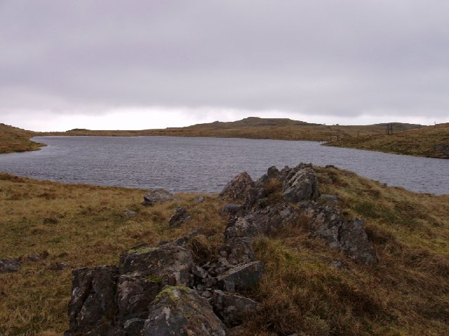 Llyn y Fign. Llyn y Fign is a small lake just below the summit of Glasgwm in the Aran massif. The whole square is rough moorland and has good views along the Aran ridge (north) and Cadair Idris (west).